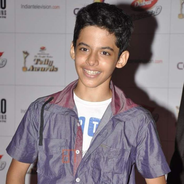 Actor